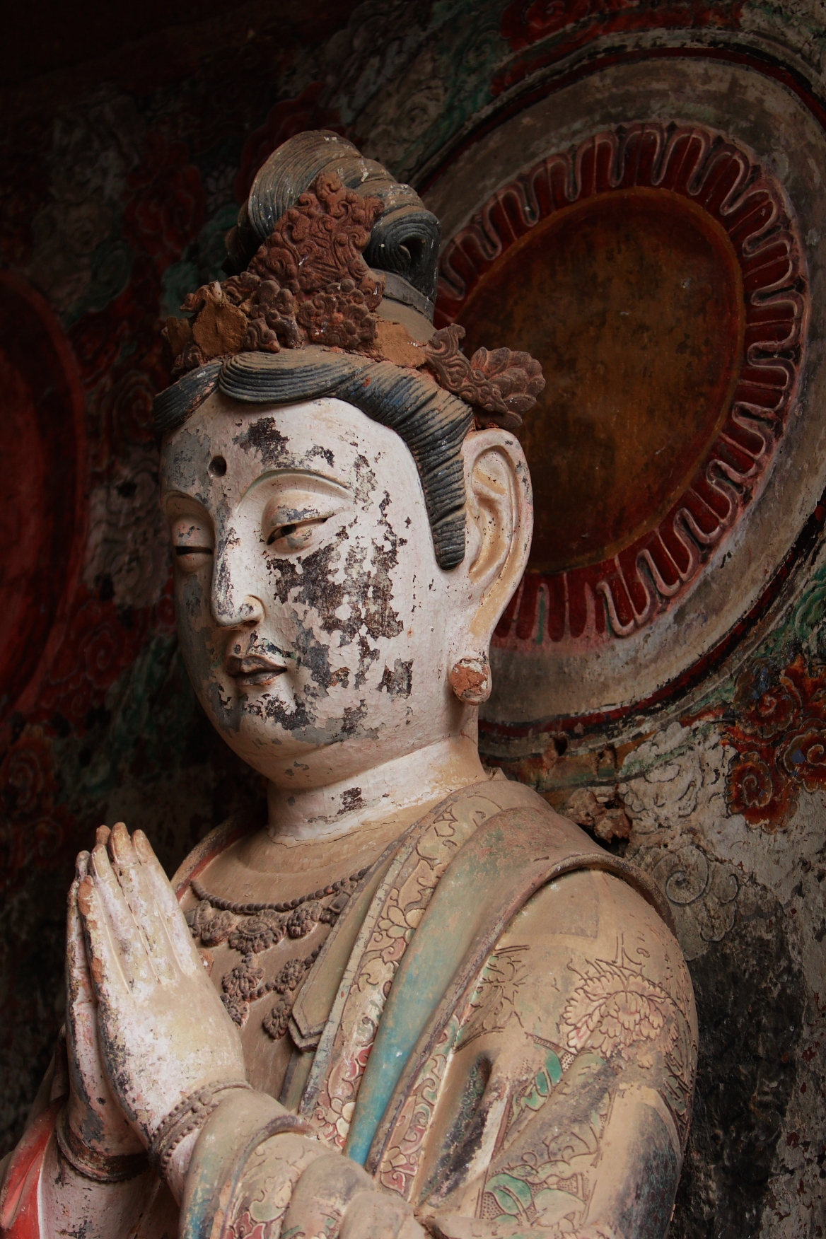 Bodhisattva statue at MaiJiShan, Tianshui,Gansu,China.